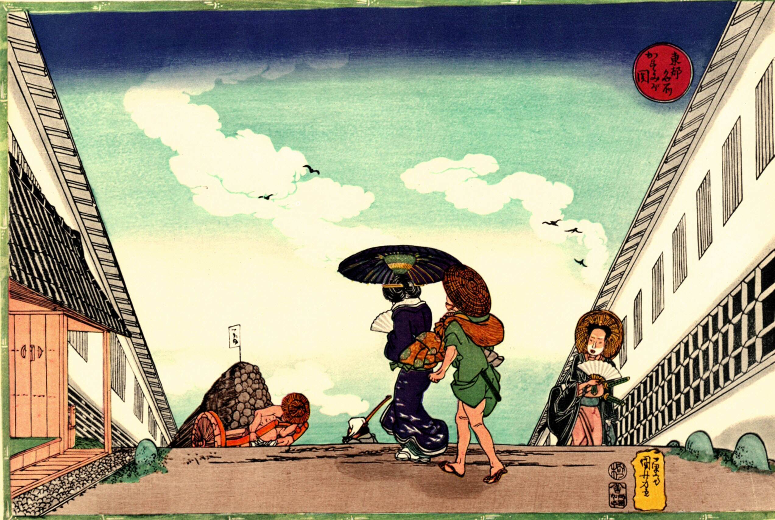 Ukiyo-e "High Noon at Kasumigaseki". Asano Hiroshima clan and Kuroda Fukuoka clan mansion. Made by Kuniyoshi Utagawa